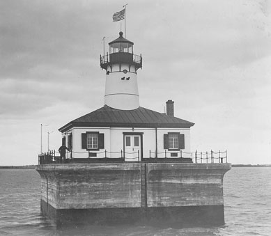 Image of the Fourteen Foot Shoal lighthouse